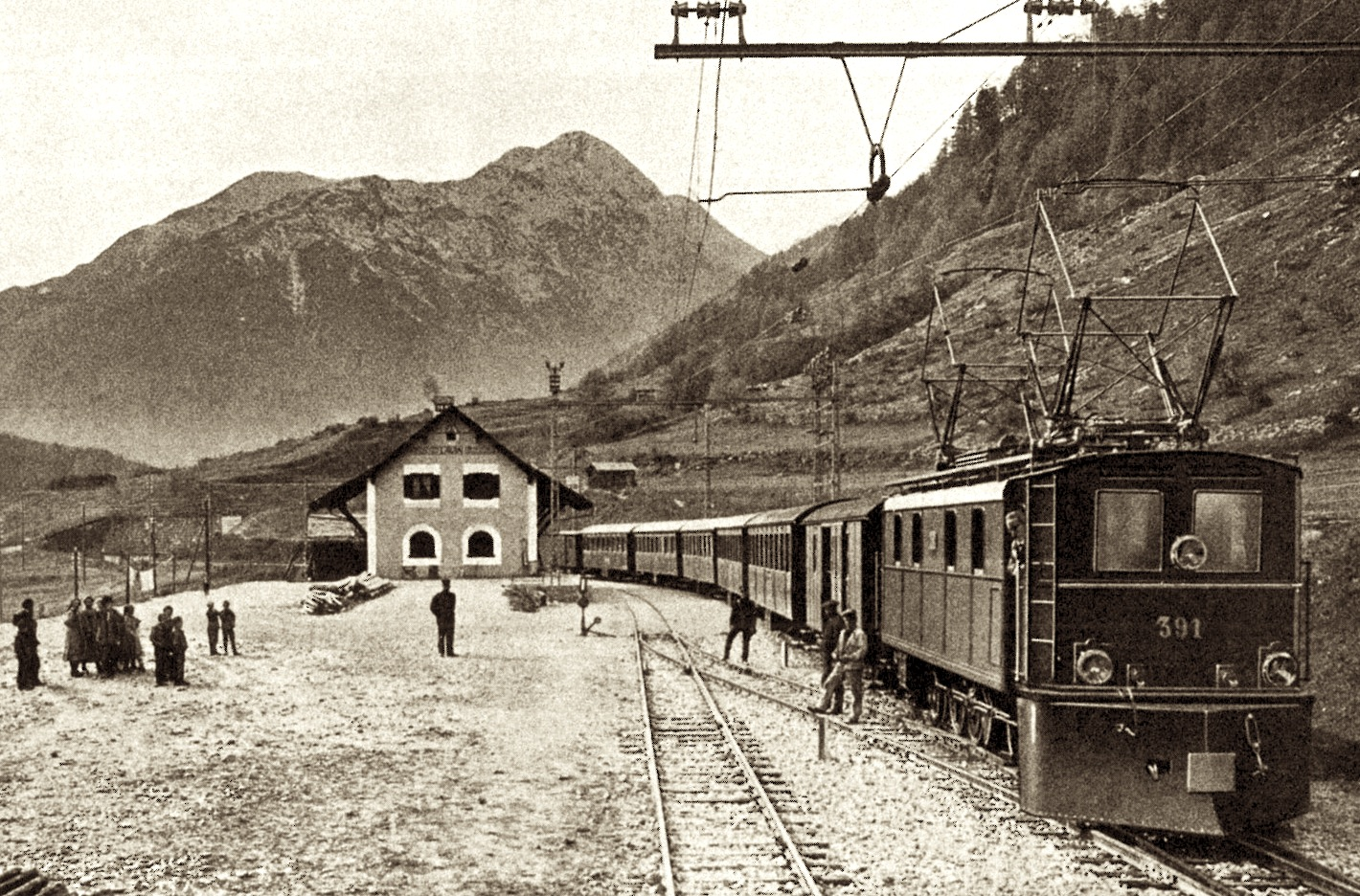 Scuol Bahnhof 1913